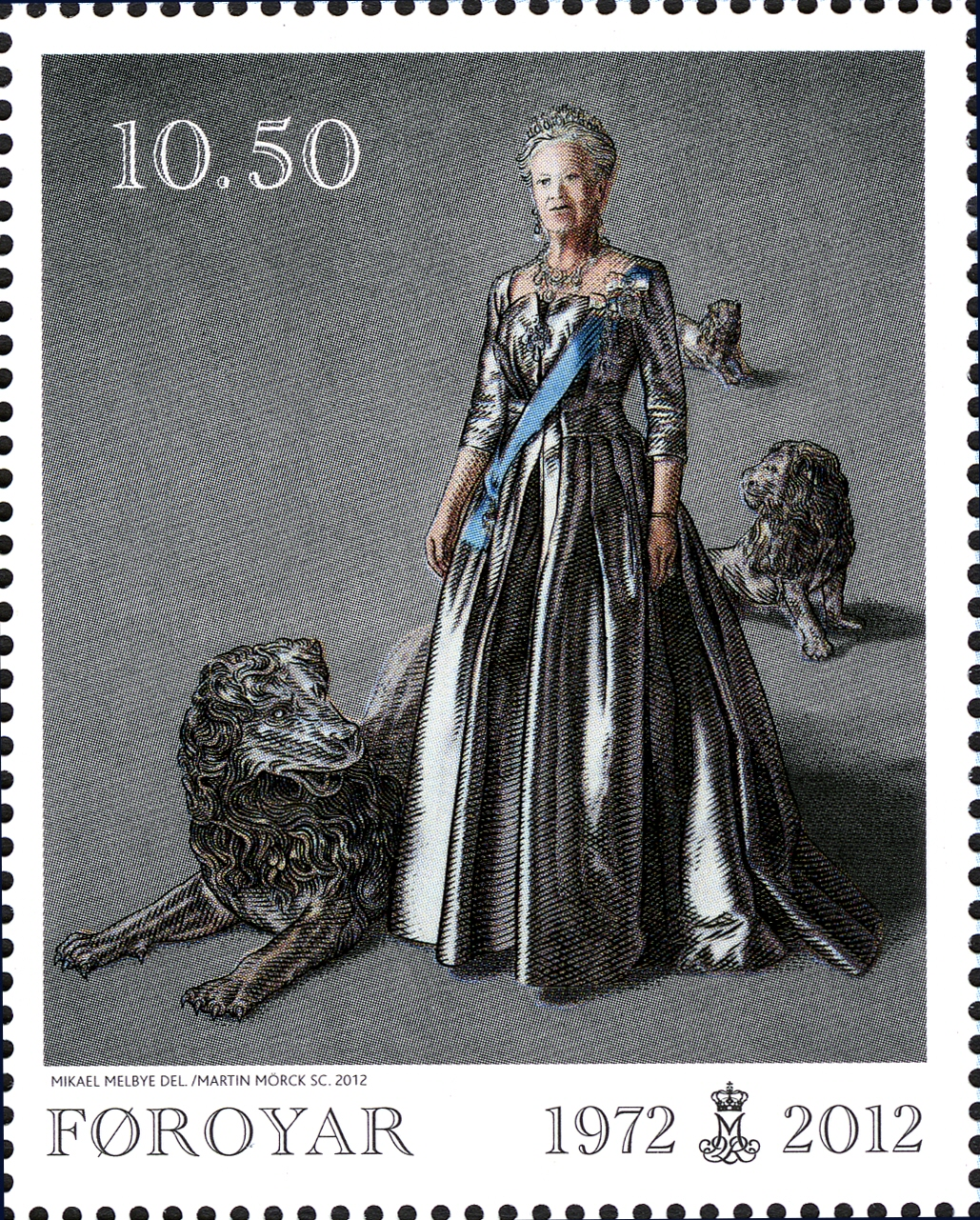 Stamps of the Faroe Islands-2012